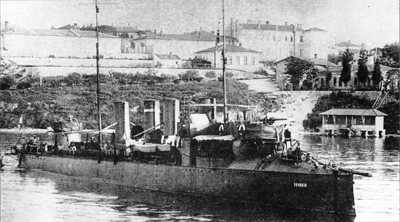 Russian destroyer Zvonkii.